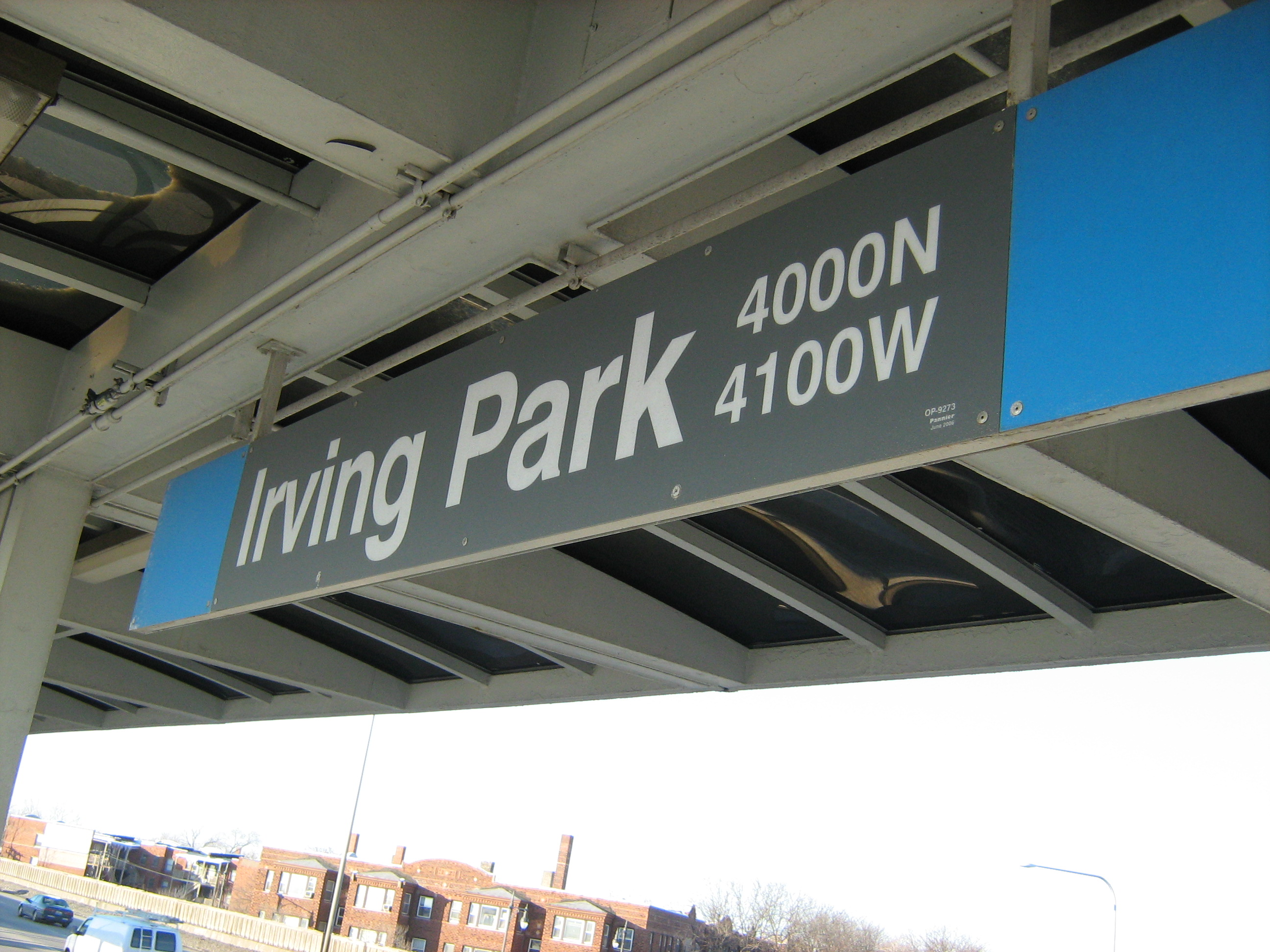 Irving Park CTA Blue line Station